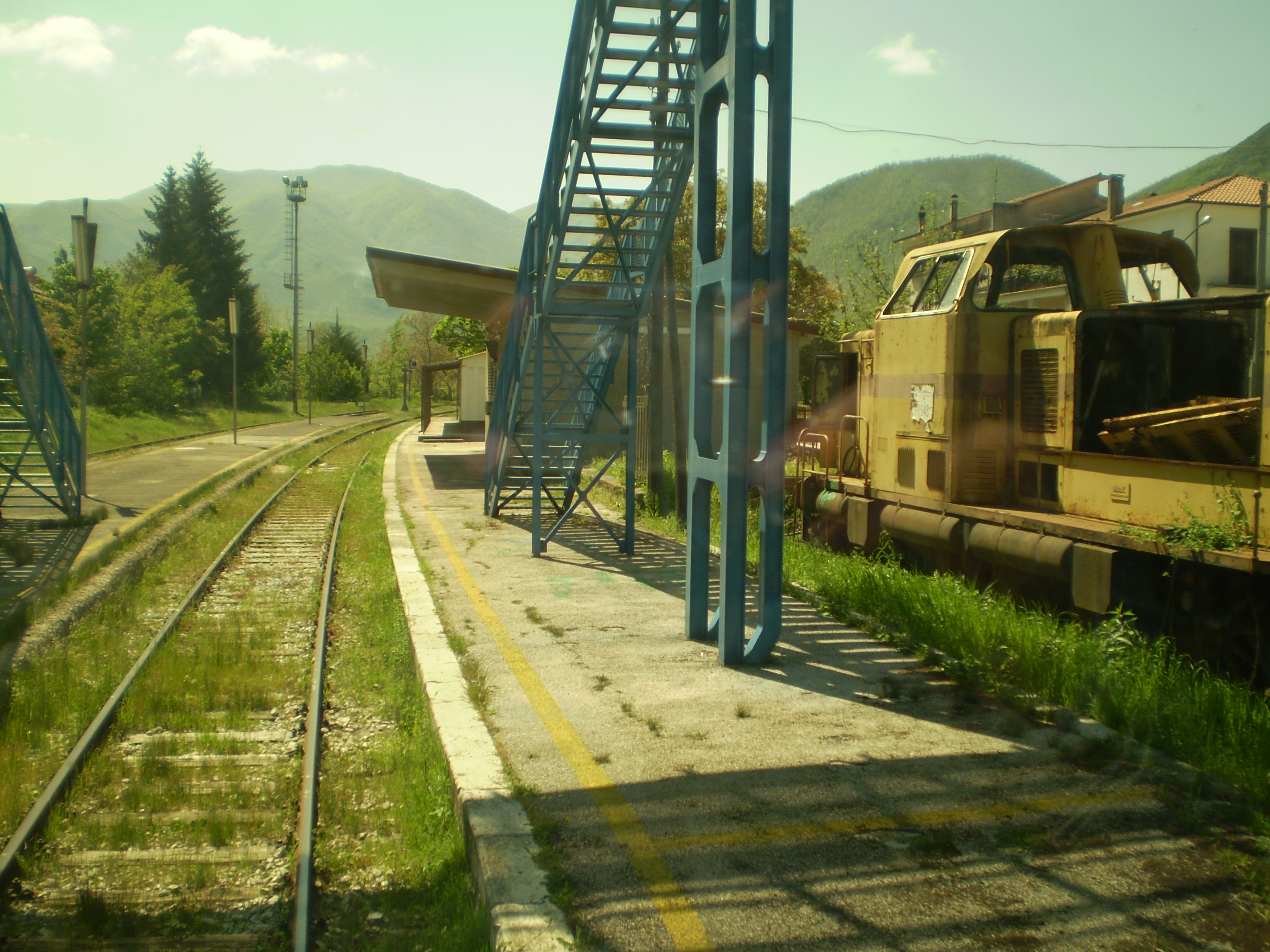 Montella train station, province of Avellino, Italy.